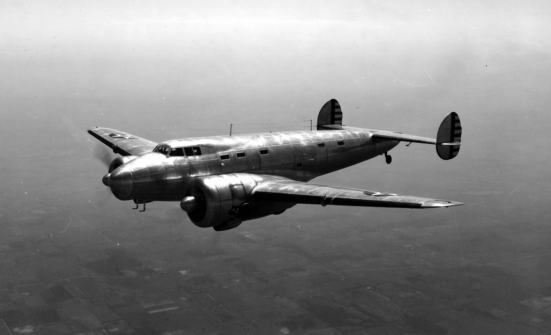 The Lockheed XC-35, the first American aircraft with a pressurized cabin, in flight. (U.S. Air Force photo)